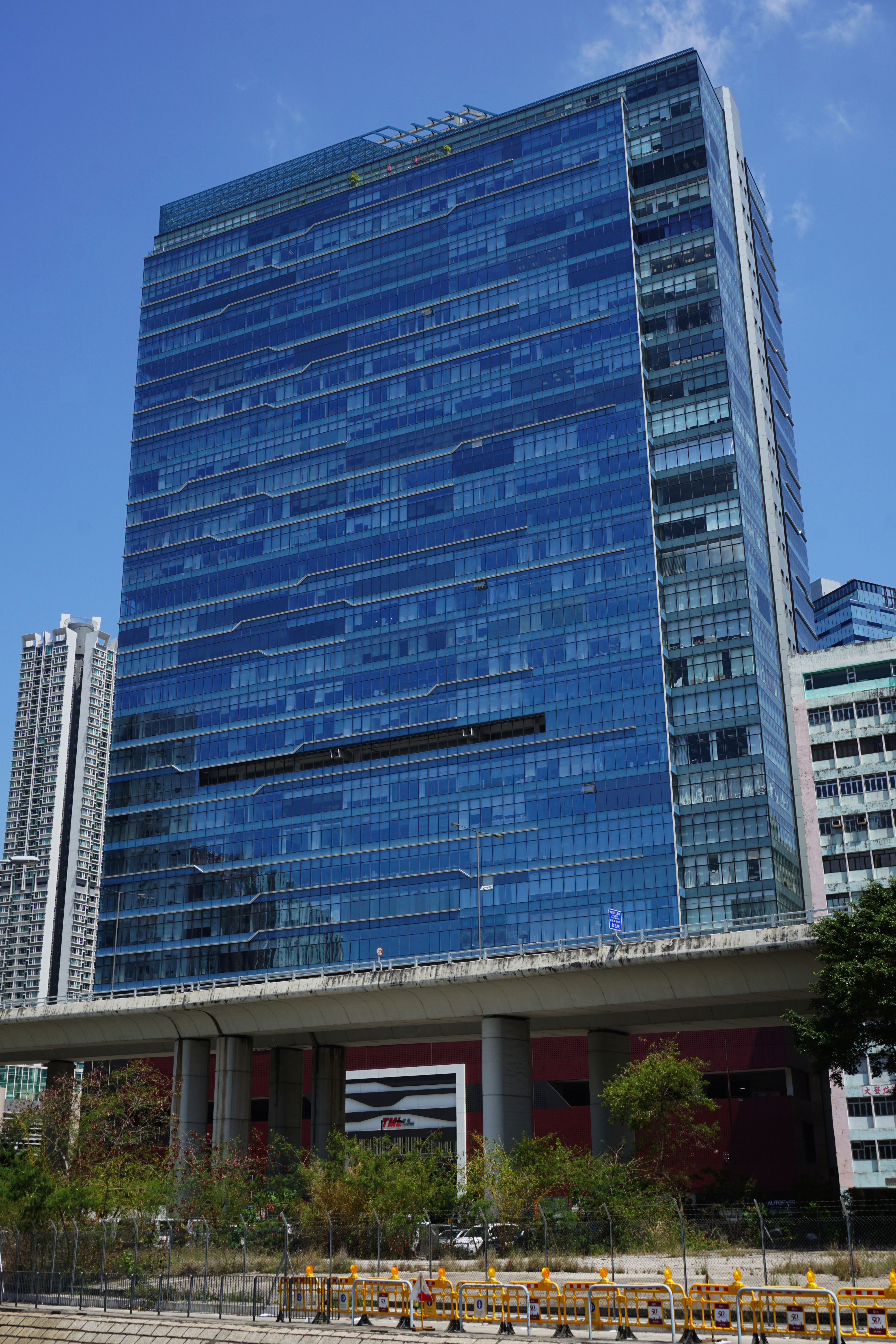 TML Tower in Tsuen Wan, Hong Kong.